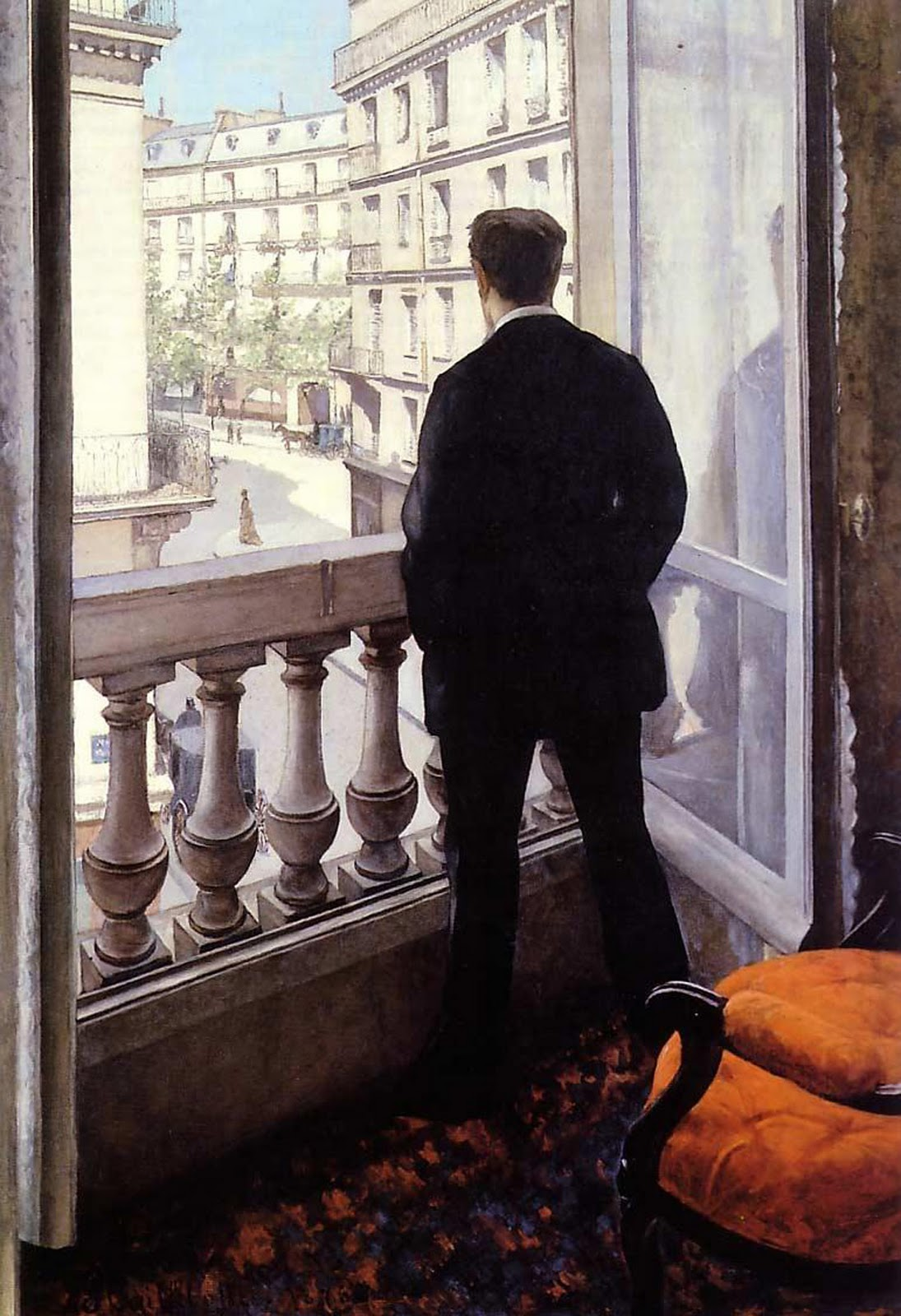 The artist's younger brother René in the home on rue de Miromesnil